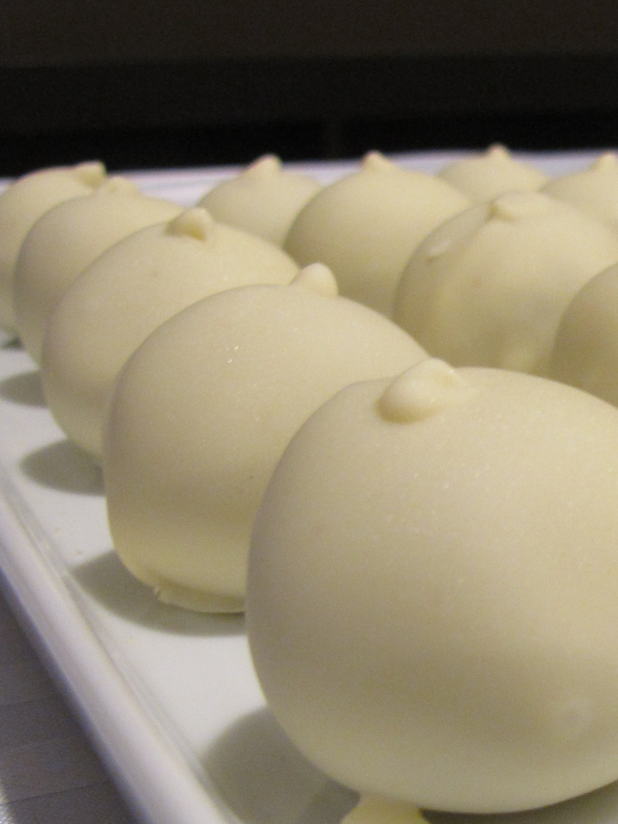 Red velvet cake mixed with cream cheese frosting and dipped in white chocolate. Part of a dessert buffet I made for an Oscar Party at home.